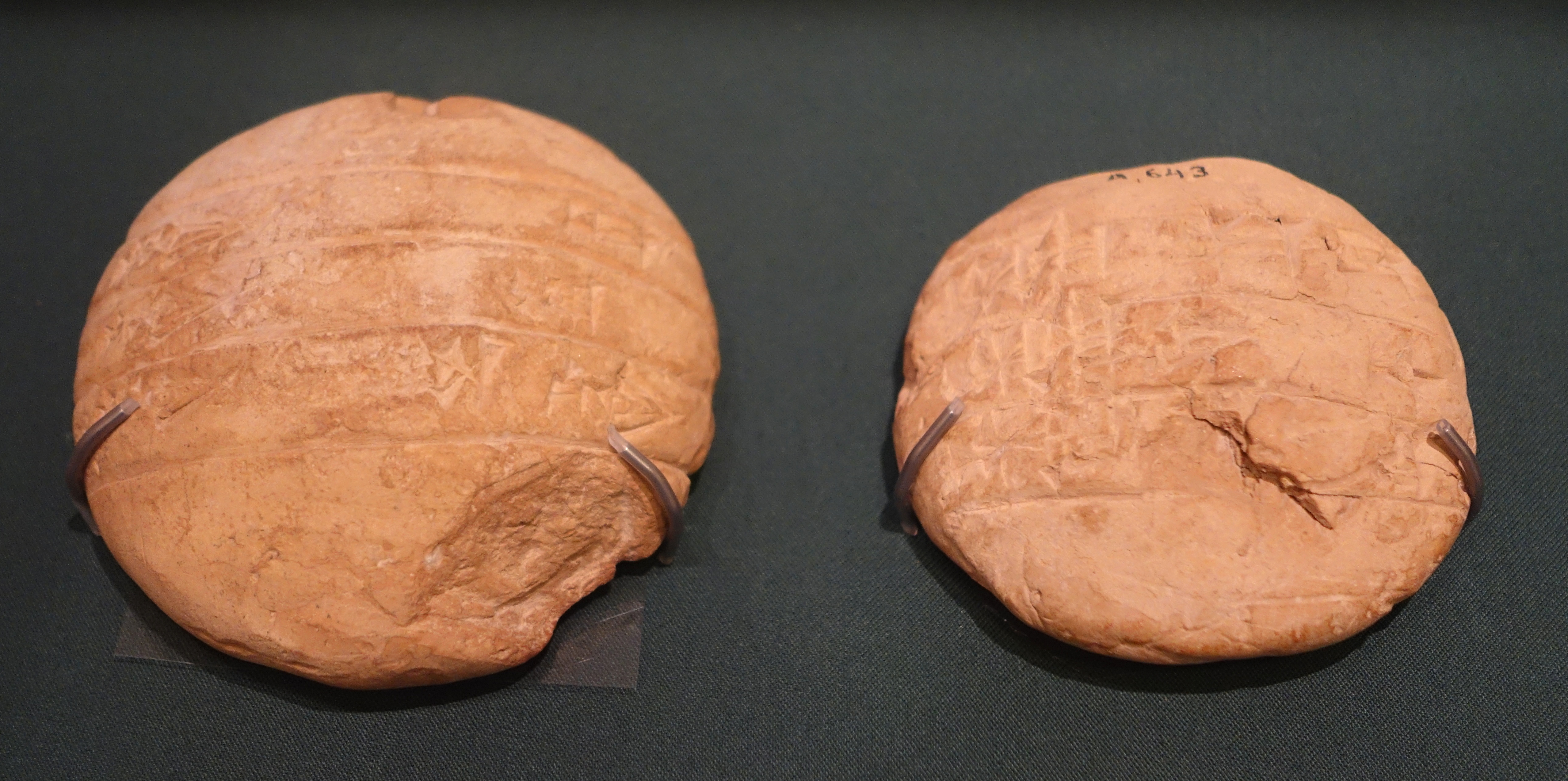 Exhibit in the Oriental Institute Museum, University of Chicago, Chicago, Illinois, USA. This work is old enough so that it is in the public domain.